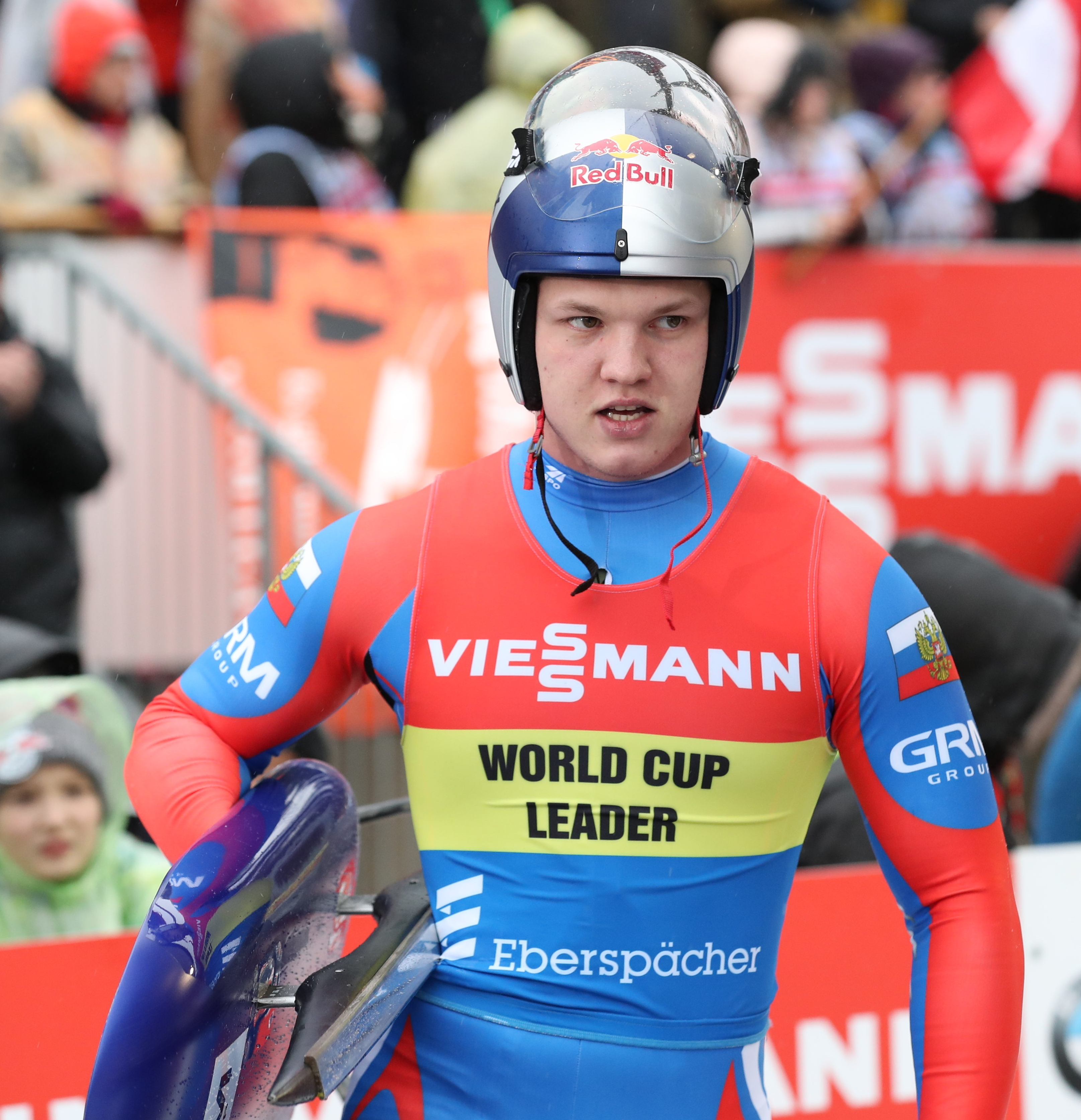 Men's World Cup at the 2019/20 Oberhof Luge World Cup